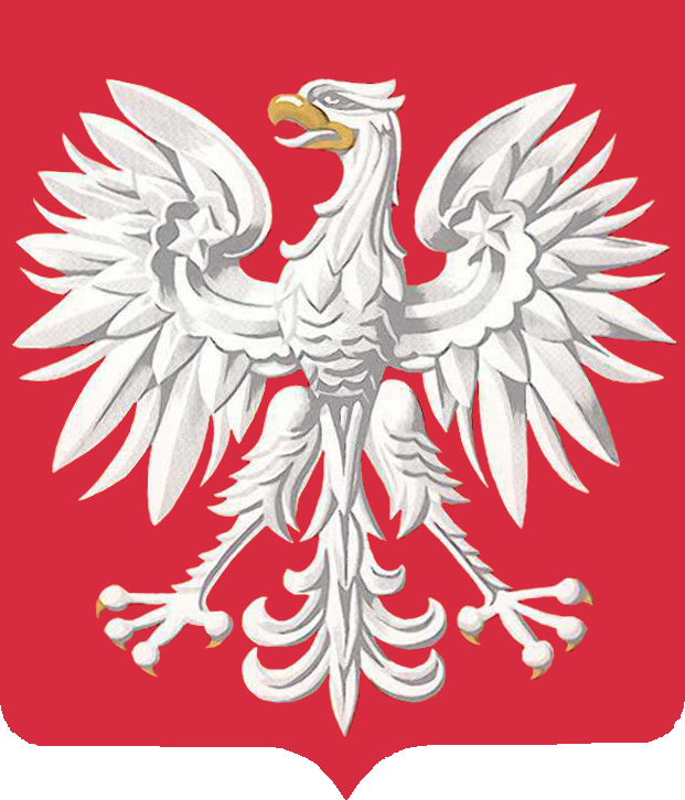 Coat of arms of the Polish People's Republic in years 1980 - 1989